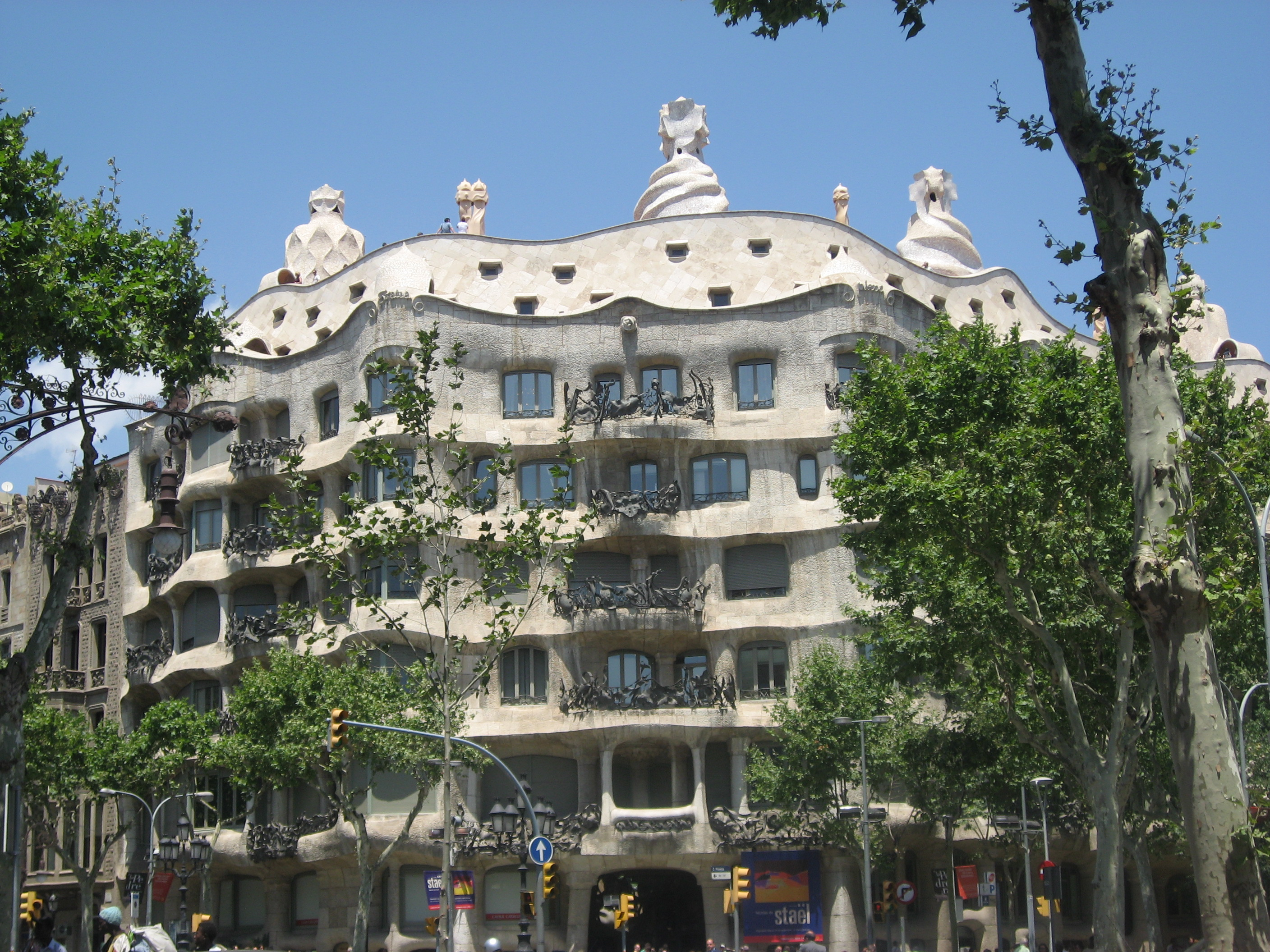 Casa Milà. Designed by the Catalan architect Antoni Gaudí and built in the years 1905–1907.